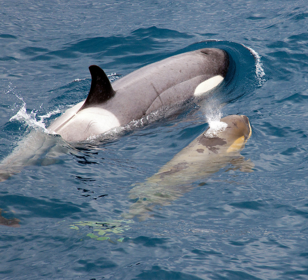 091201_south_georgia_orca_5227